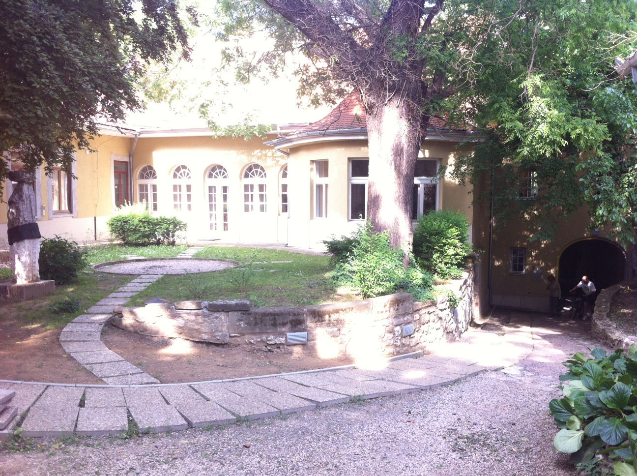 Court of the House of Civil Communities Pécs